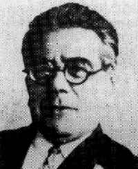 Milan Begović, Croatian writer